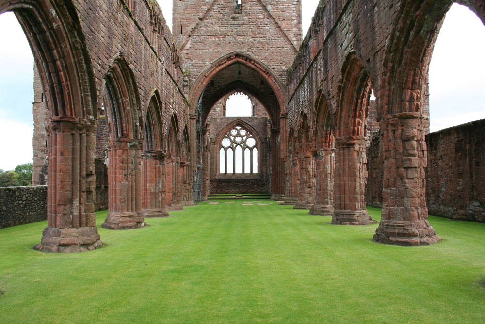 August 2006 - Sweetheart Abbey, New Abbey, Dumfriesshire Ron Waller